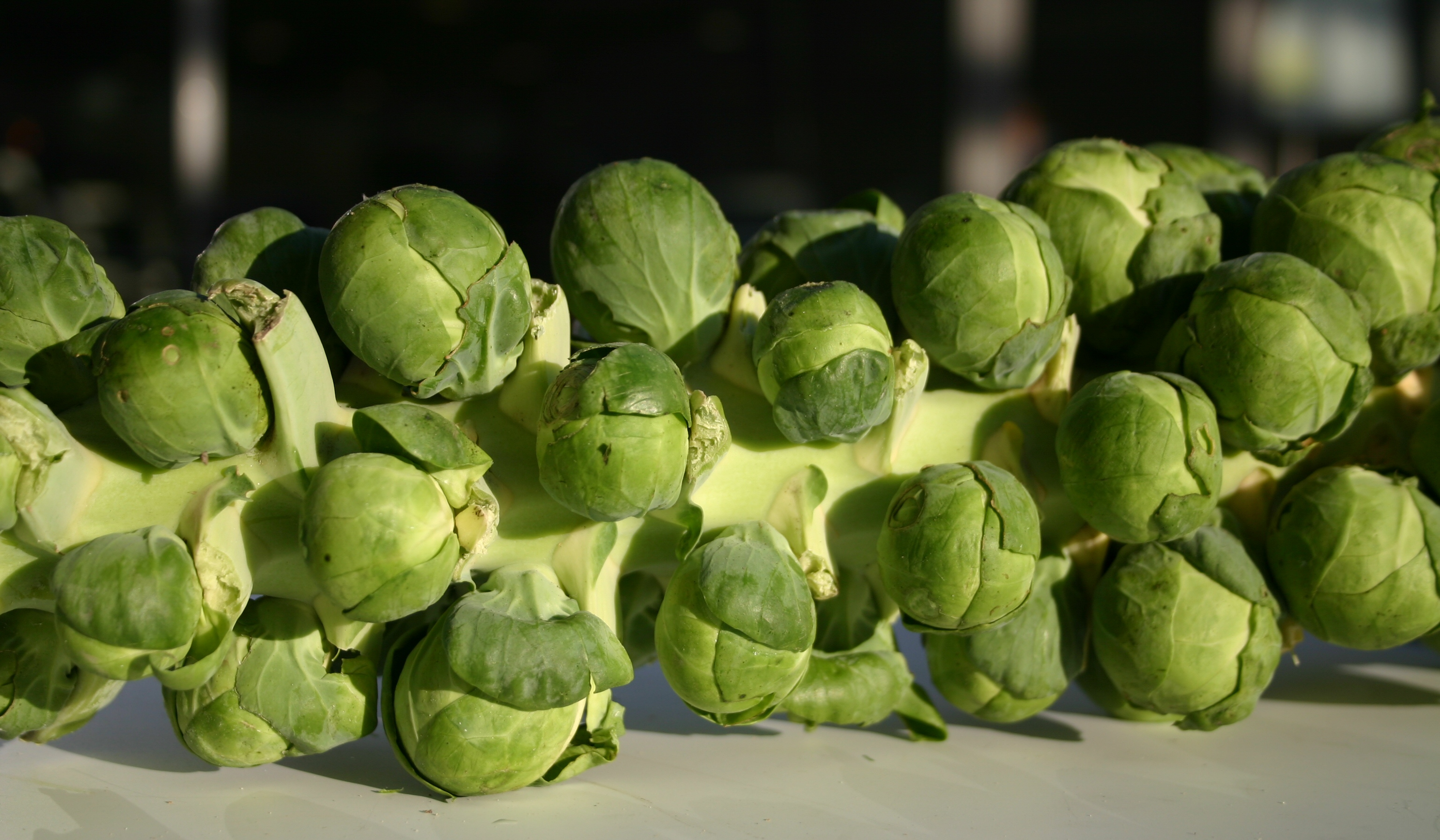 Brussel sprouts